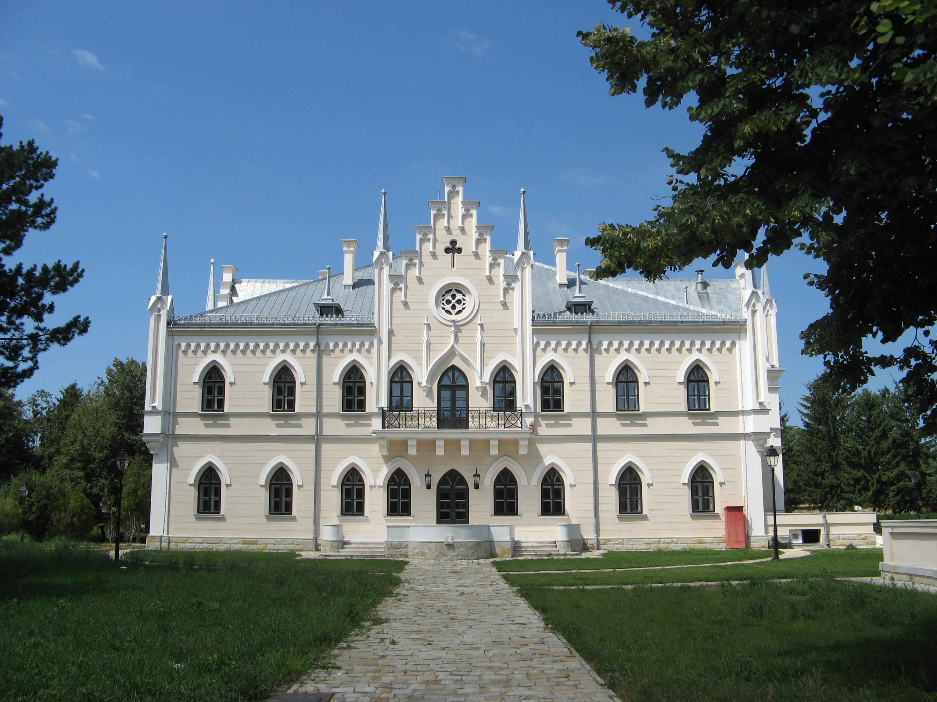 Alexandru Ioan Cuza Palace at Ruginoasa, Iaşi County